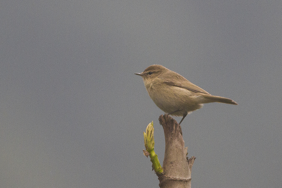 The species Common Chiffchaff had been photographed from Khangchendzonga National Park in West Sikkim, India on 30.03.2016.